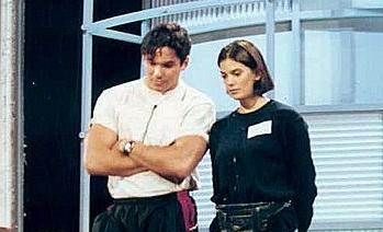 Description: Dean Cain and Teri Hatcher at the 45th Emmy Awards rehearsal